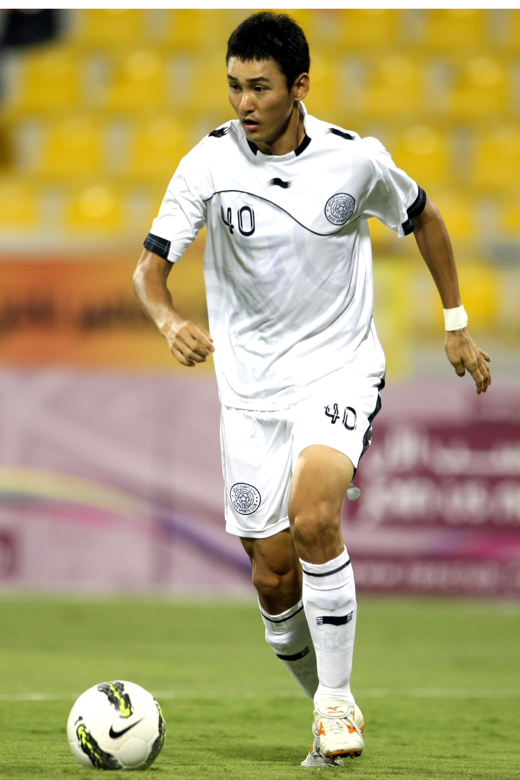 Al Sadd's Lee Jung-Soo in action against Umm Salal in the Qatar Stars League.